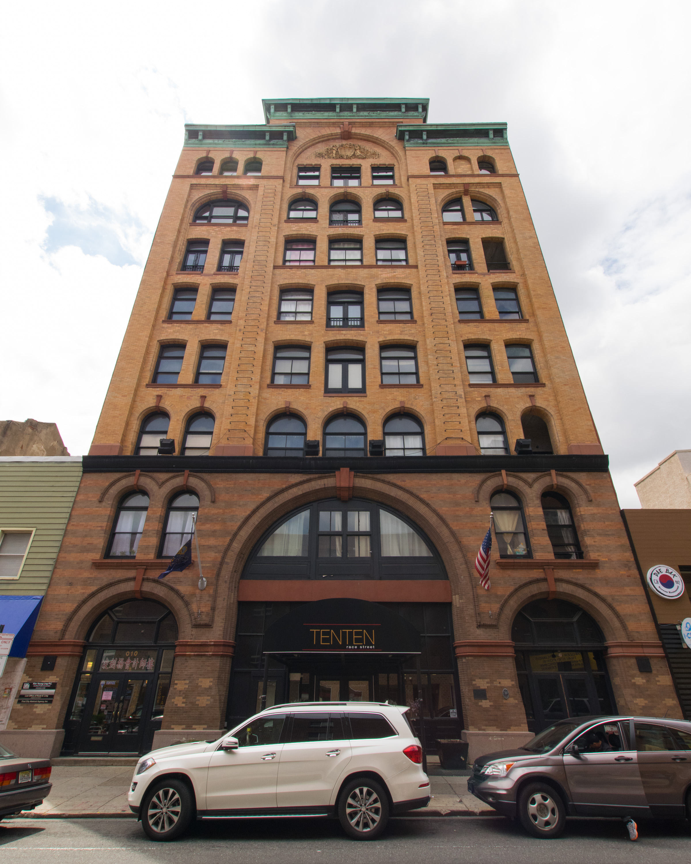 Heywood Chair Factory building